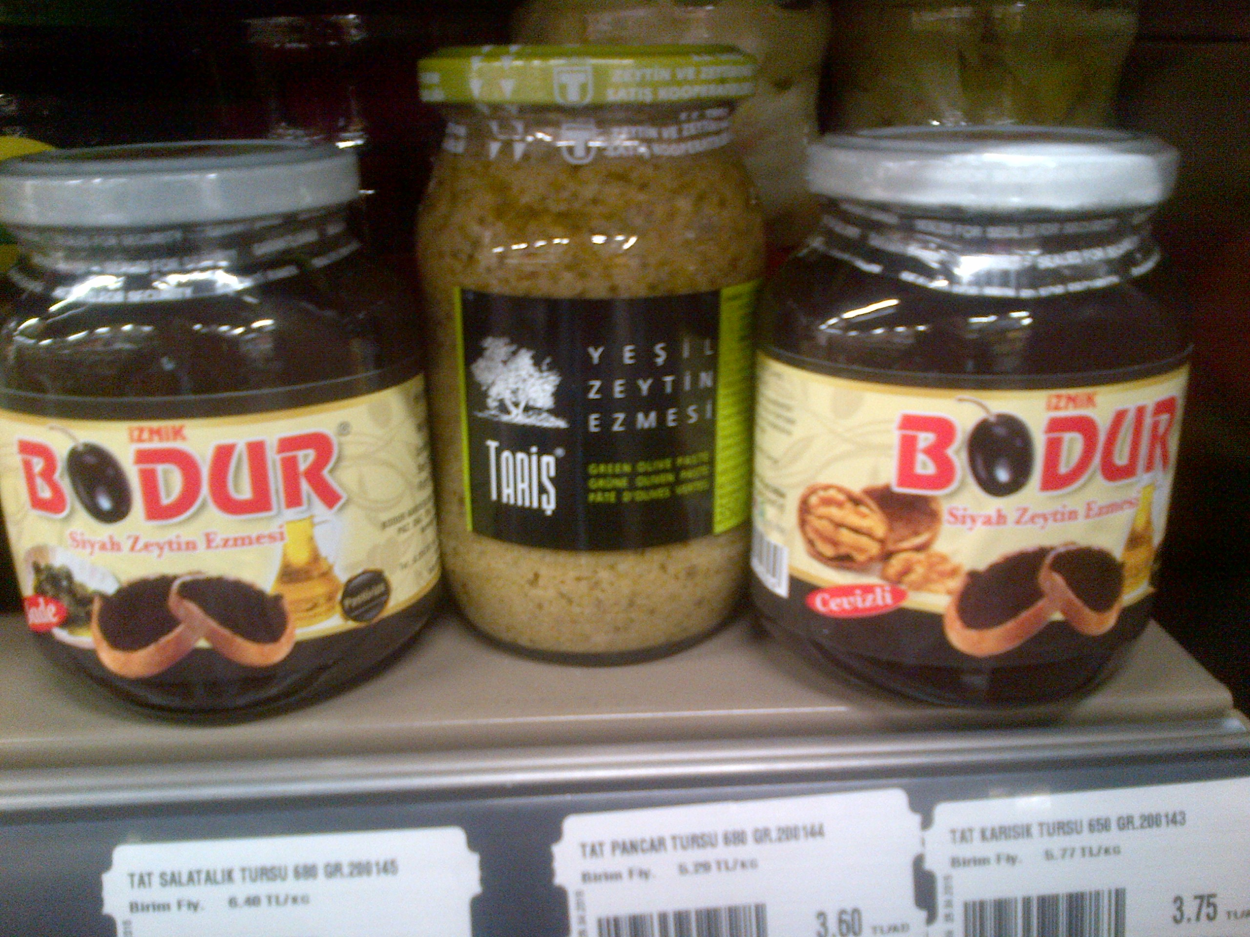 "Zeytin ezmesi" (olive paste) is a typical breakfast item in Turkey, especially for kids as it doesn't have the risks of eating olives.